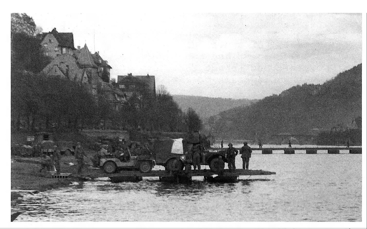 The 289th Engineer Combat Battalion ferried troops and vehicles over the Neckar River at Heidelberg until pontoon bridges were complete and damaged bridges repaired by the engineers (March 31, 1945)